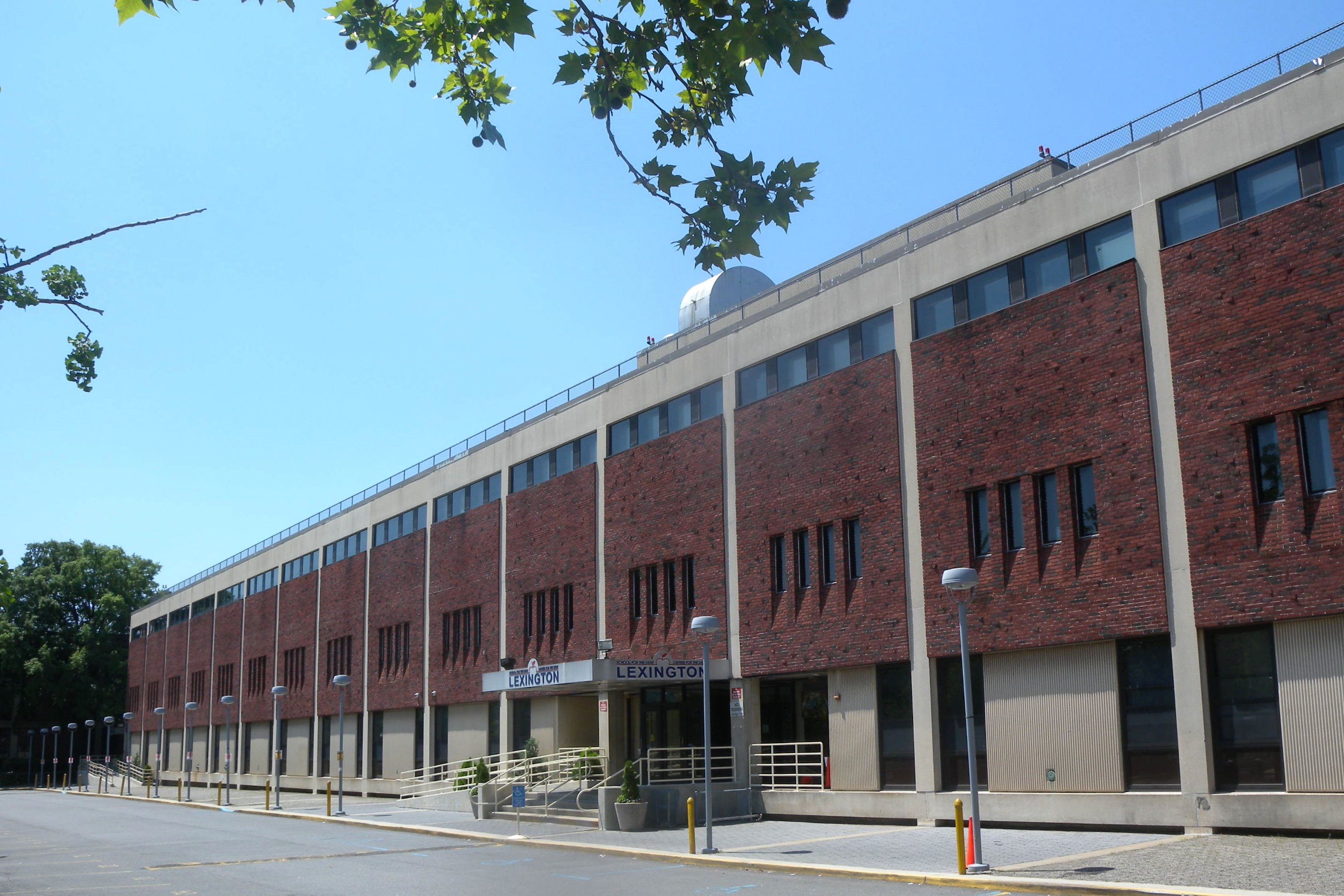 Looking south at Lexington School on a sunny late morning.